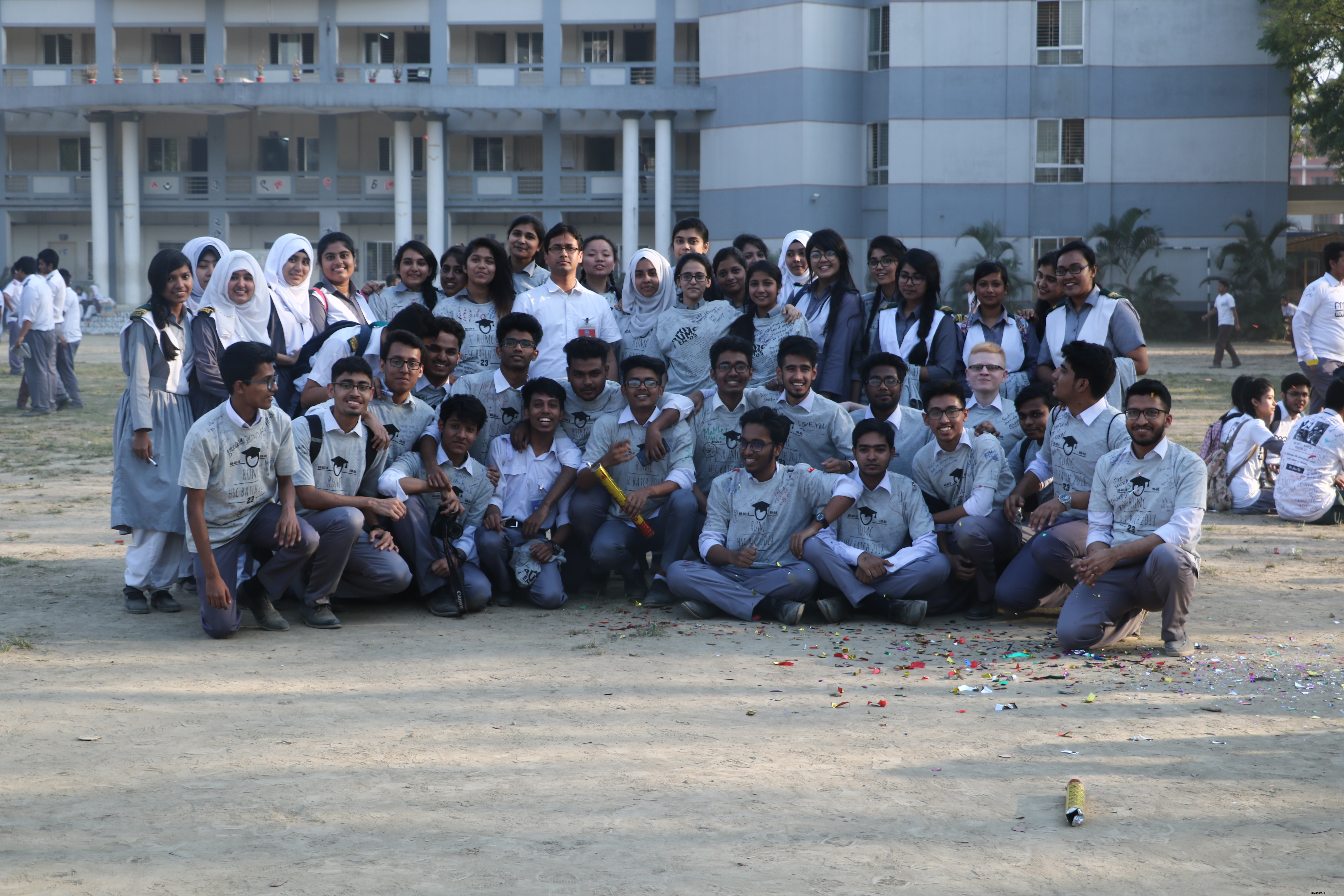 Students celebrating rag day in RUMC campus.